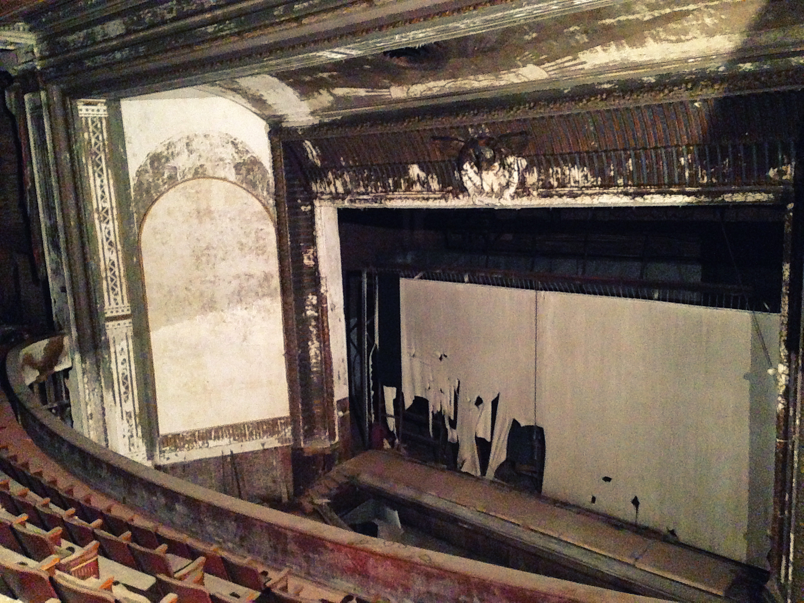 Stage of the Victory Theater in Holyoke, Massachusetts, which is the last Art Deco theater of its kind between Boston and Albany.